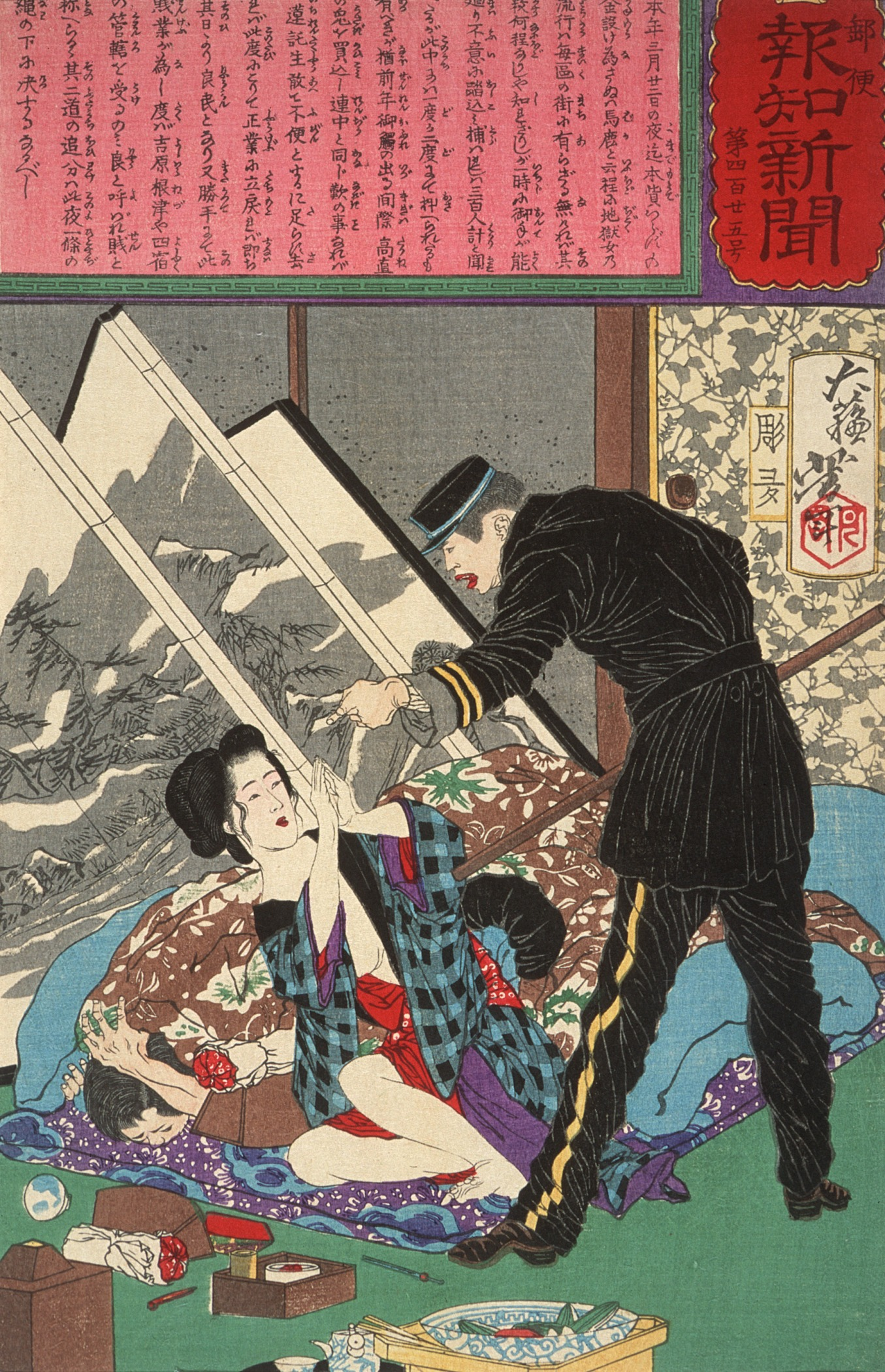 Japan, 4/1875 Series: The Postal News, no. 425 Prints; woodcuts Color woodblock print Herbert R. Cole Collection (M.84.31.174) Japanese Art